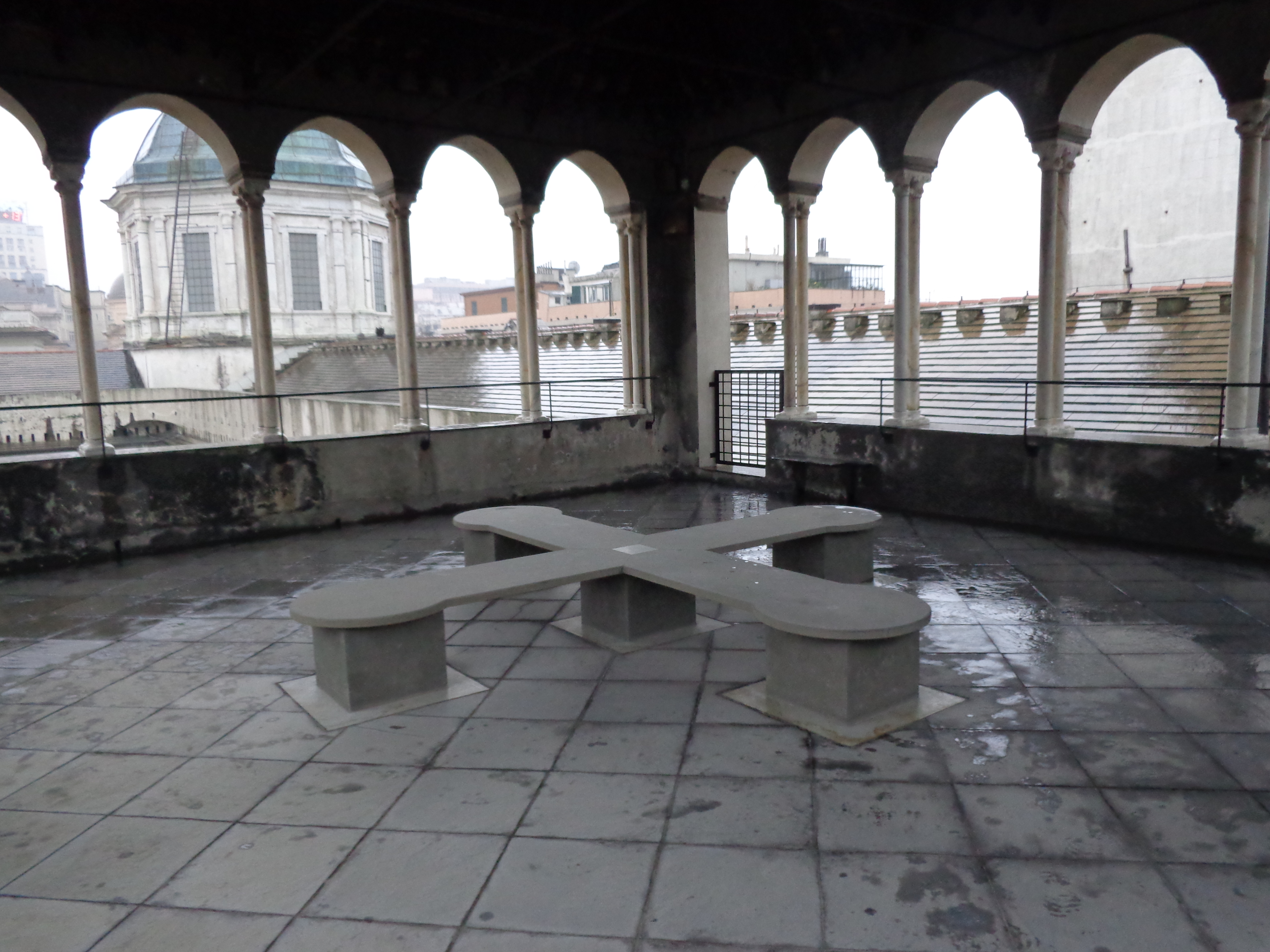 Upper part of the Cathedral of San Lorenzo (loggia)